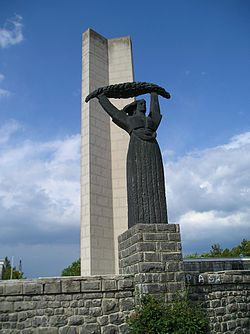 Second World War memorial - Kosturnica Kumanovo